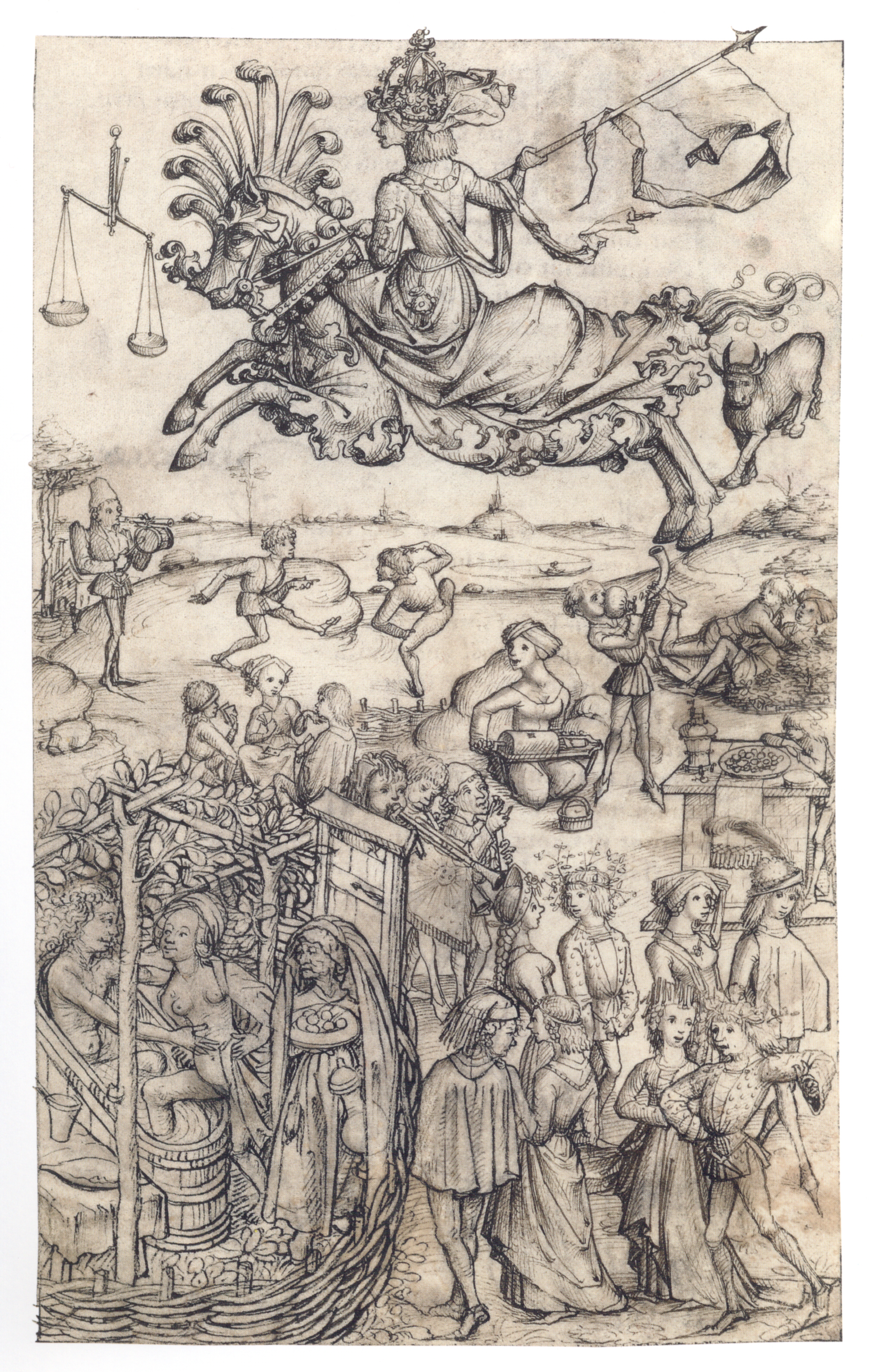 Mittelalterliches Hausbuch von Schloss Wolfegg Fol. 15r: Venus und ihre Kinder Master of the Housebook (fl. between 1475 and 1500) Alternative namesMaster of the House-Book, Master of the Amsterdam Cabinet, Master of 1480DescriptionGerman painter, draughtsman and engraverDate of birth/death14501500Work periodbetween 1475 and 1500Work locationMiddle Rhine, Heidelberg (?), Mainz (?)Authority control : Q460300 VIAF: 79397502 ULAN: 500002780 WGA: MASTER of the Housebook GND: 118546961 RKD: 115714